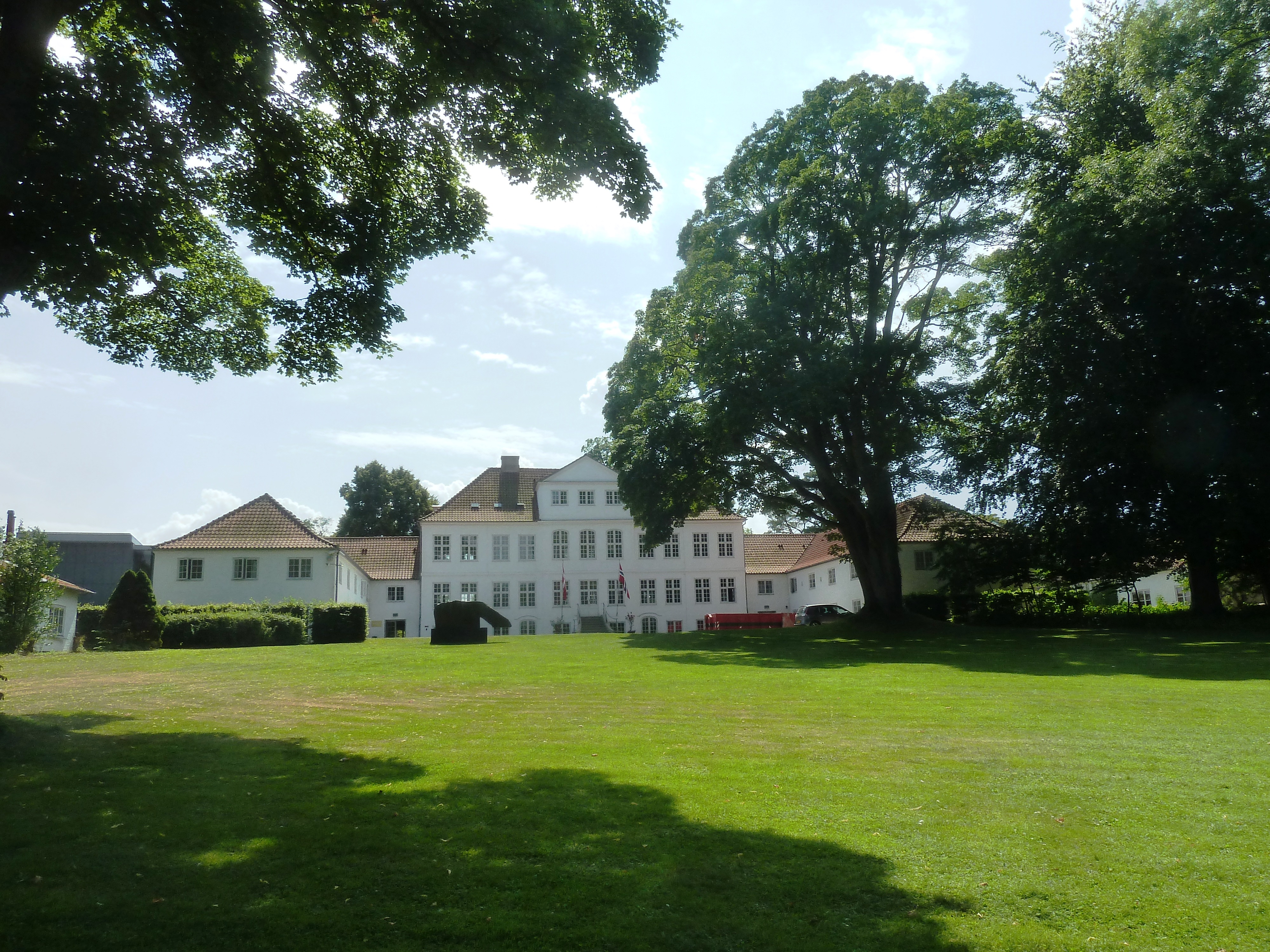 Schæffergården in Gentofte Municipality, Copenhagen, Denmark